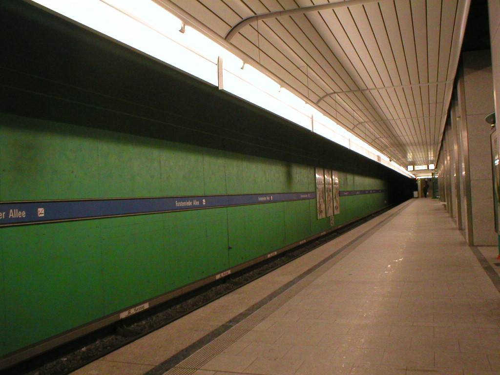 The Munich U-Bahn station Forstenrieder Allee, Linie U3